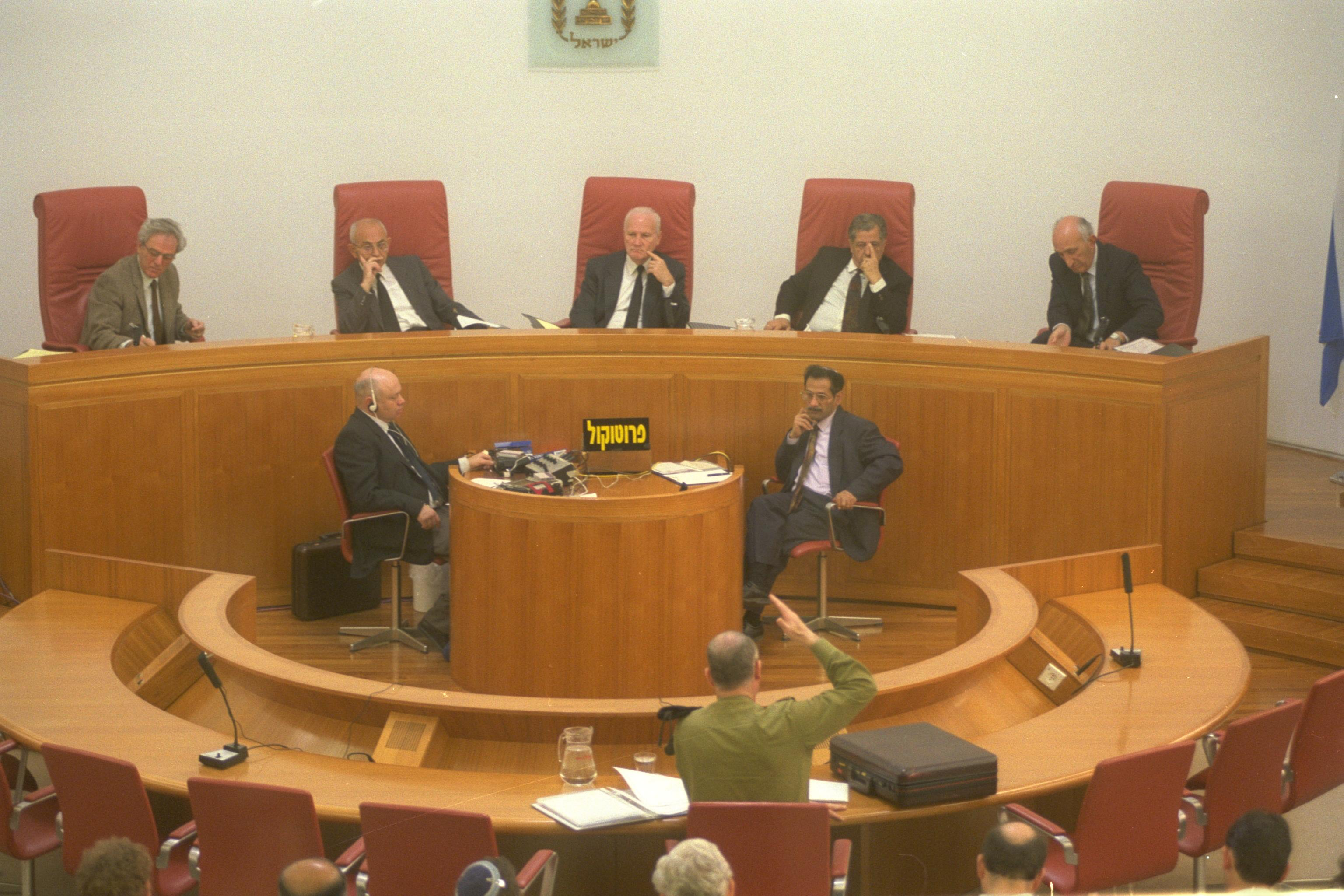 Major Gen. Danny Yatom testifying before the State Commission of Inquiry into the massacre at the Cave of the Patriarchs in Hebron. אלוף דני יתום מעיד בפני הועדה לבחינת הטבח במערת המכפלה Photo: OHAYON AVI, 03/08/1994